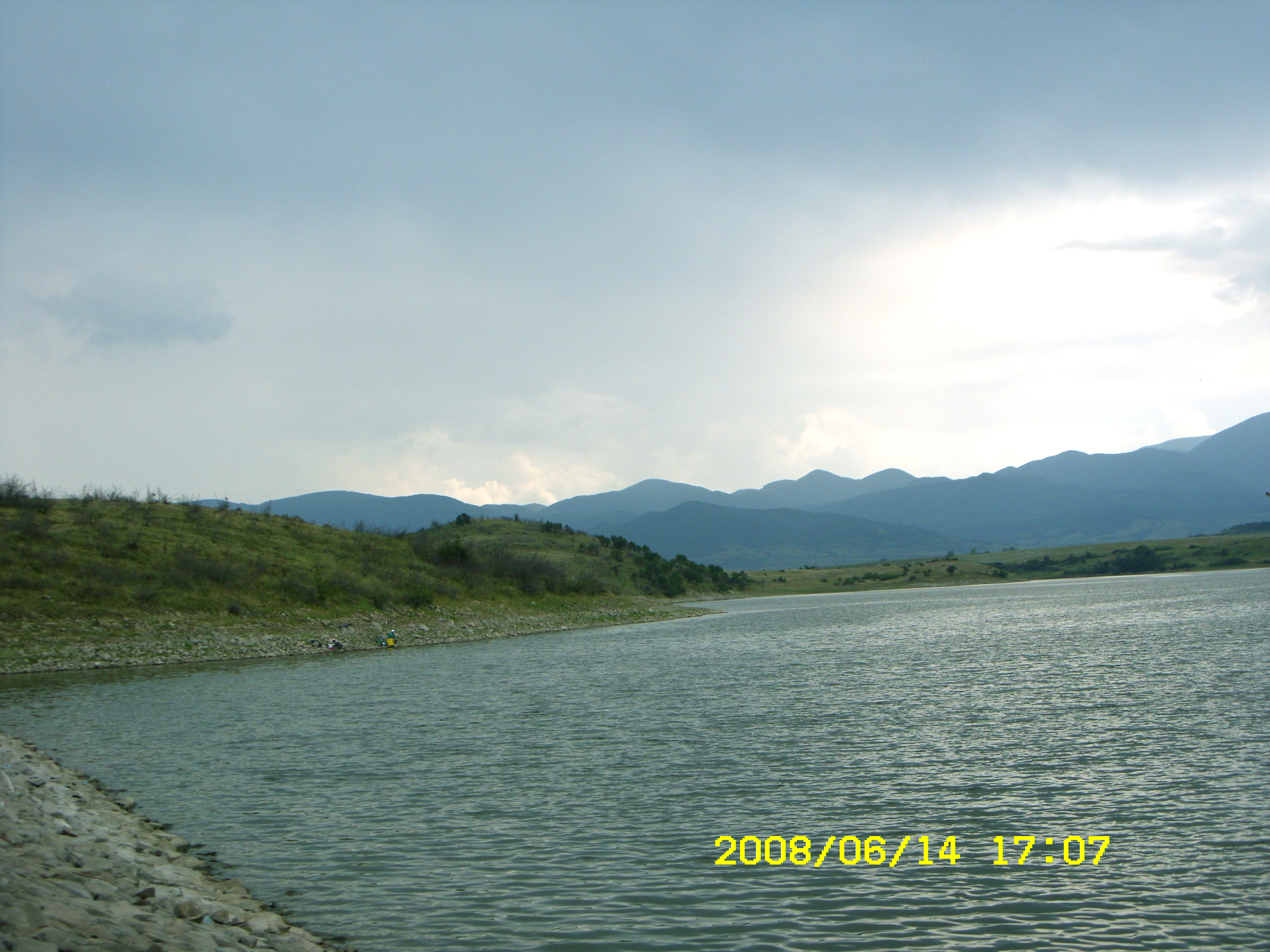 The Bryagovo reservoir near Dragoyna peak, Plovdiv Province, Bulgaria